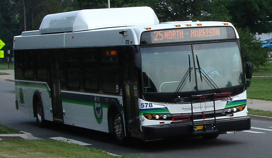 Capital Area Transportation Authority hybrid DE40LFR bus at Michigan State University